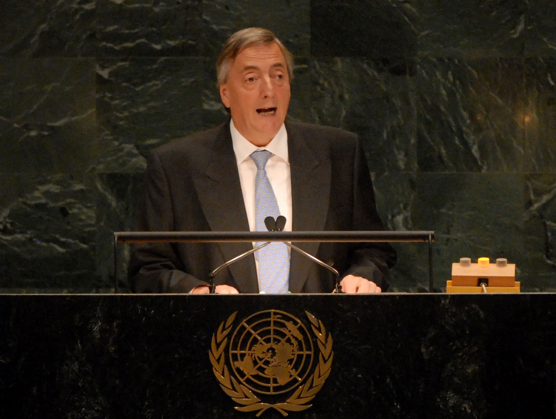 Argentine President Nestor Kirchner speaking to the UN General Assembly.